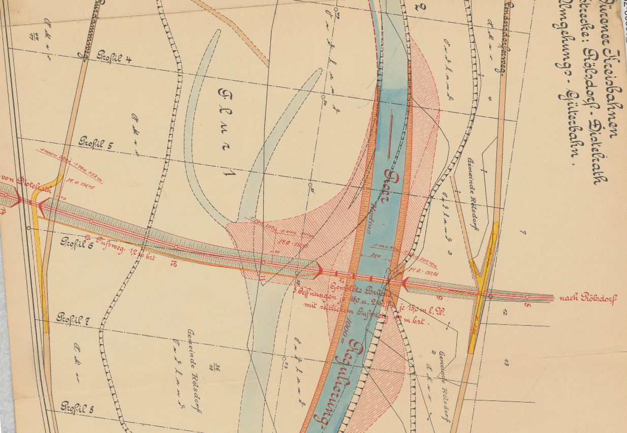 Drawing of the Rur bridge for the southern freight bypass line of the Dürener Kreisbahn and the planned Rur adaptation